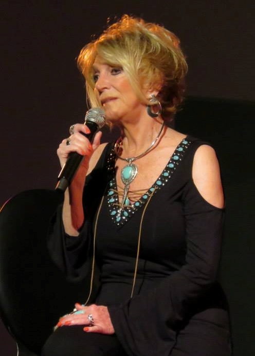 Jeannie Seely performing at R.O.P.E.